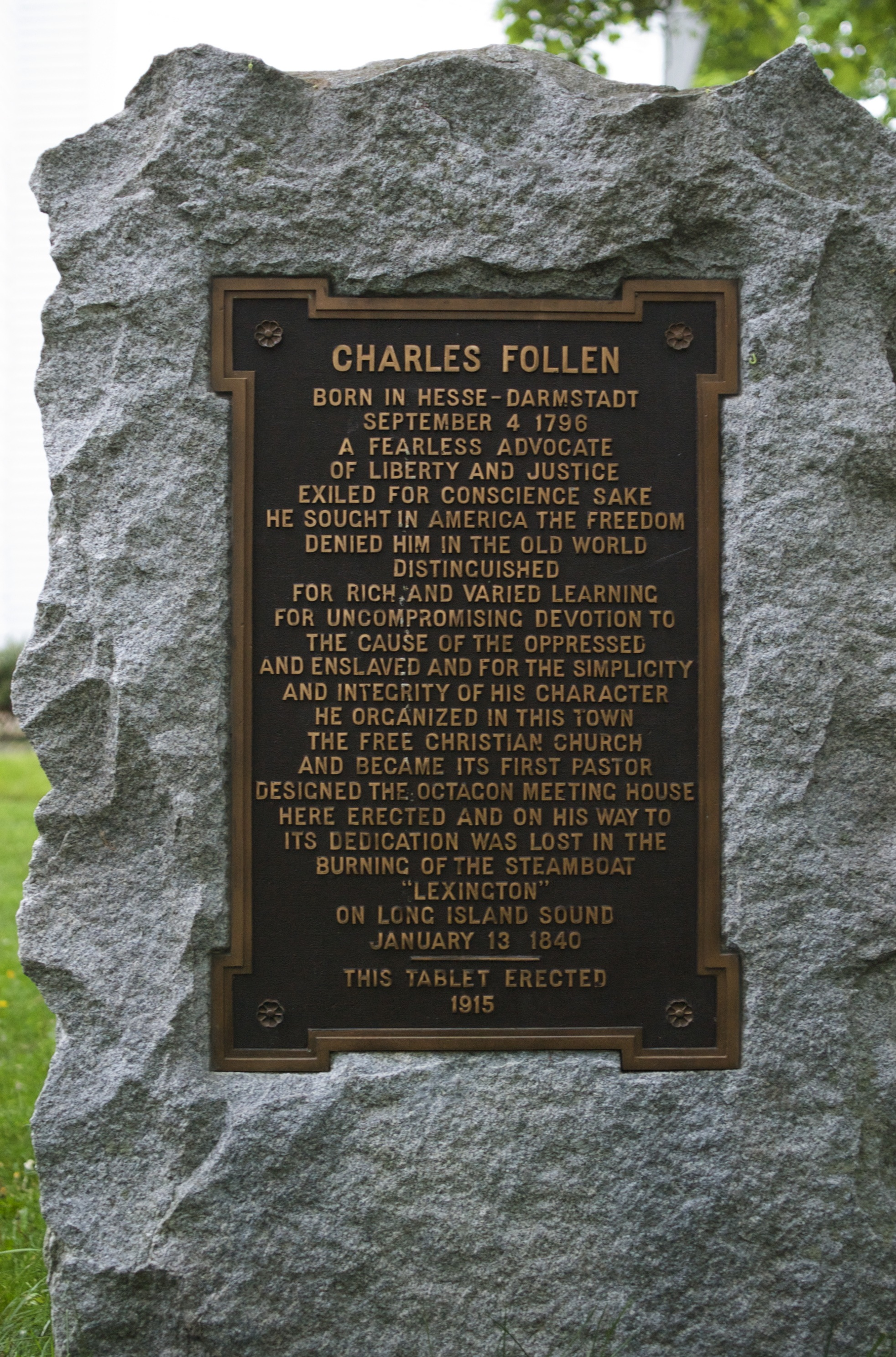 A memorial (erected in 1915) for Charles Follen at the Follen Community Church in Lexington, Massachusetts. The text of the tablet reads: "Born in Hesse-Darmstadt, September 4 1796. A fearless advocate of liberty and justice, exiled for conscience sake, he sought in America the freedom denied him in the old world. Distinguished for rich and varied learning, for uncompromising devotion to the cause of the oppressed, and enslaved and for the simplicity and integrity of his character, he organized in this town the Free Christian Church and became its first pastor, designed the Octagon Meeting House here erected, and on his way to its dedication was lost in the burning of the steamboat 'Lexington' on Long Island Sound, January 13, 1840."